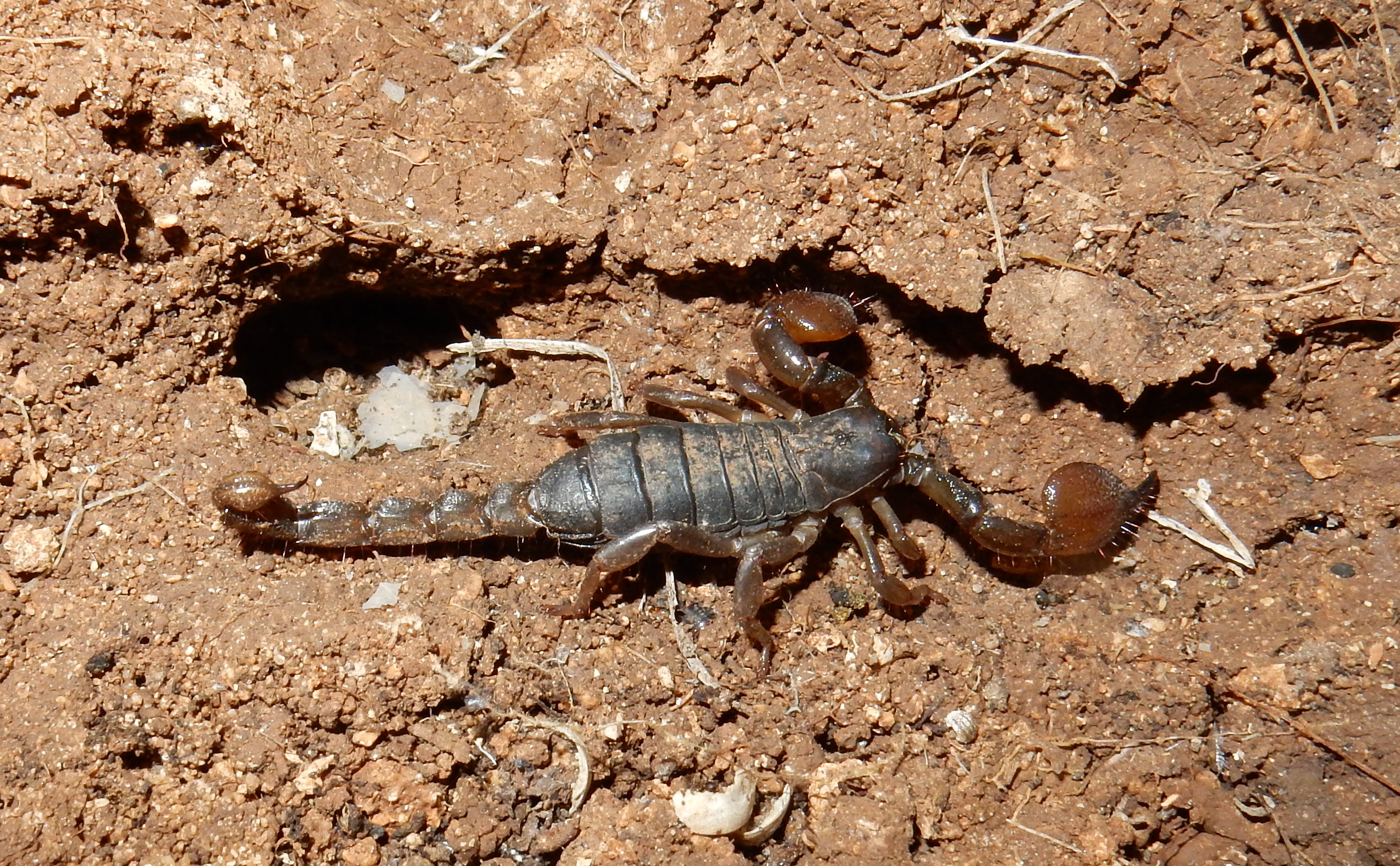 Scorpio maurus fuscus, Rosh HaNikra, Israel